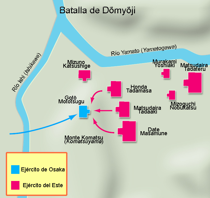 Image of the battle_of_Domyoji(1 of 2) the part of the siege of Osaka (without text version).